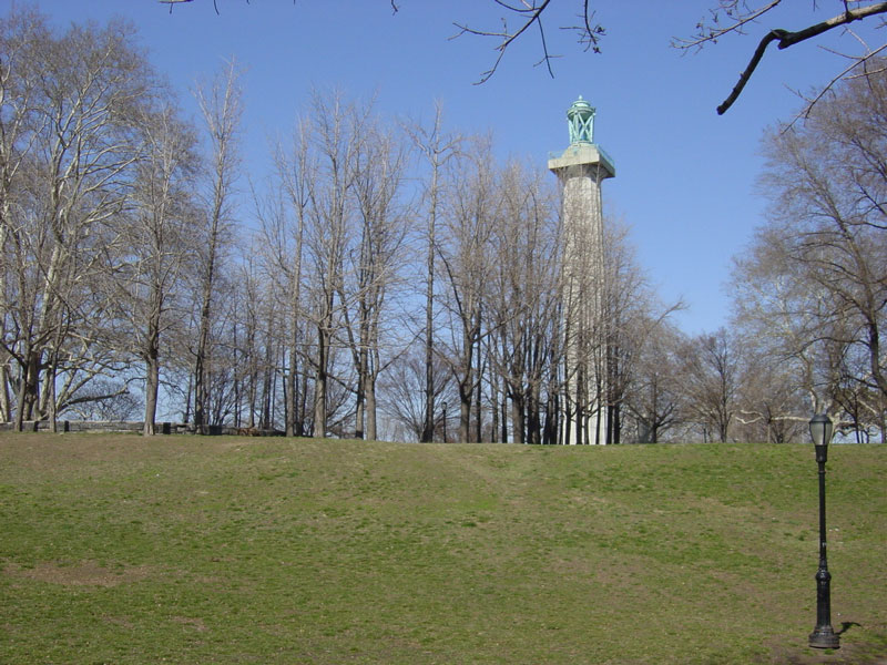 Prison ship monument in Fort Greene Park, New York city (time: american revolutionary war).